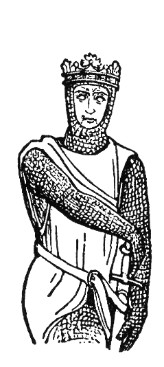 Chain armor (scale).